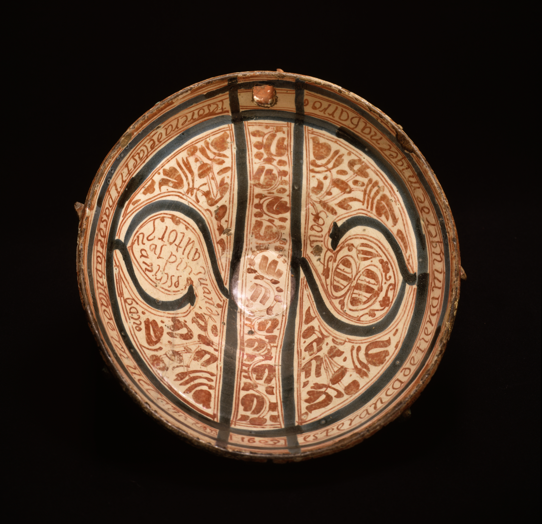 An inscription in Spanish on the rim of this bowl cites the name of its owner and alludes to its function, making it one of the most interesting surviving examples of late Hispano-Moresque pottery: "Esperança de Tierça, wife of Mig[u]el de Navarro, [and] keeper of the tripes in the town of Muel. Year 1603." Inside the bowl is the name "Juan Escribano," surely the craftsman. Tripe is pig intestine used for the casing of sausage. The casing would be fitted over the spout and the meat mixture in the bowl forced into it. The population of Muel consisted mainly of "moriscos" (Spanish subjects of Moorish descent) who made their living as potters. The town's lusterware production stopped almost completely when the "moriscos" were expelled a few years after this bowl was made.